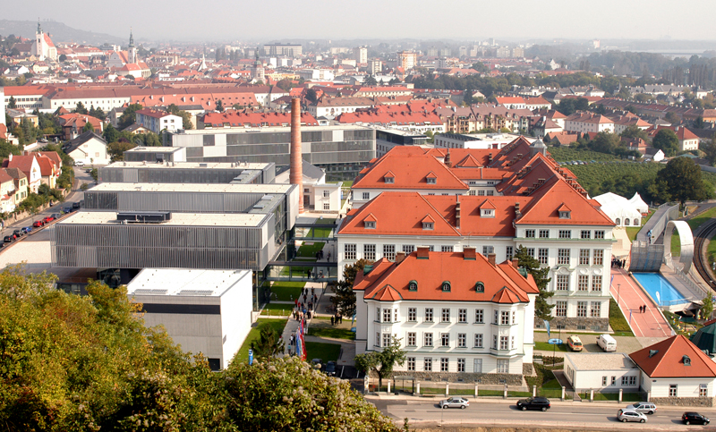 Campus Krems, Niederösterreich